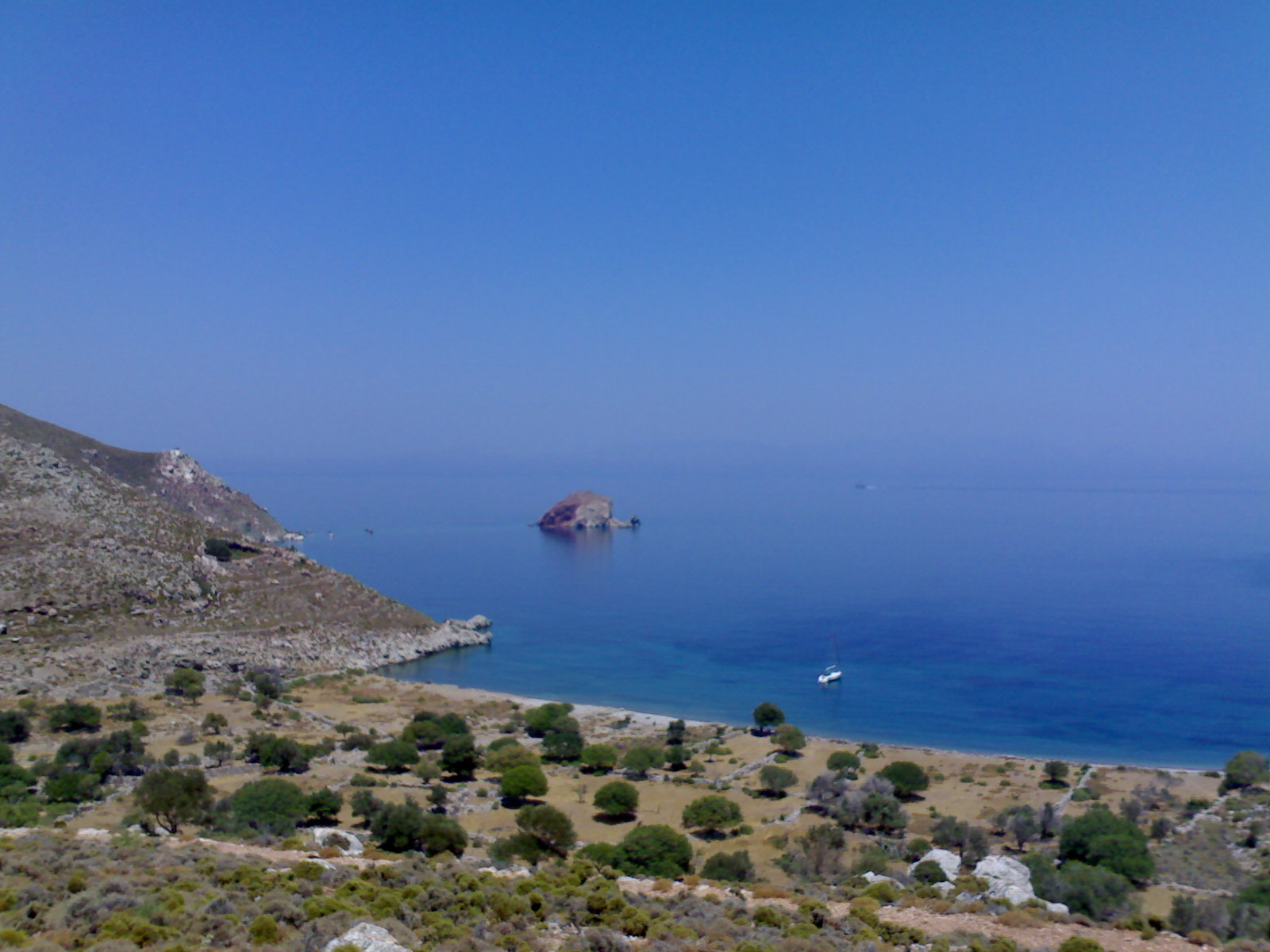 Prasouda islet at Tilos east coast, Dodecanese, Greece